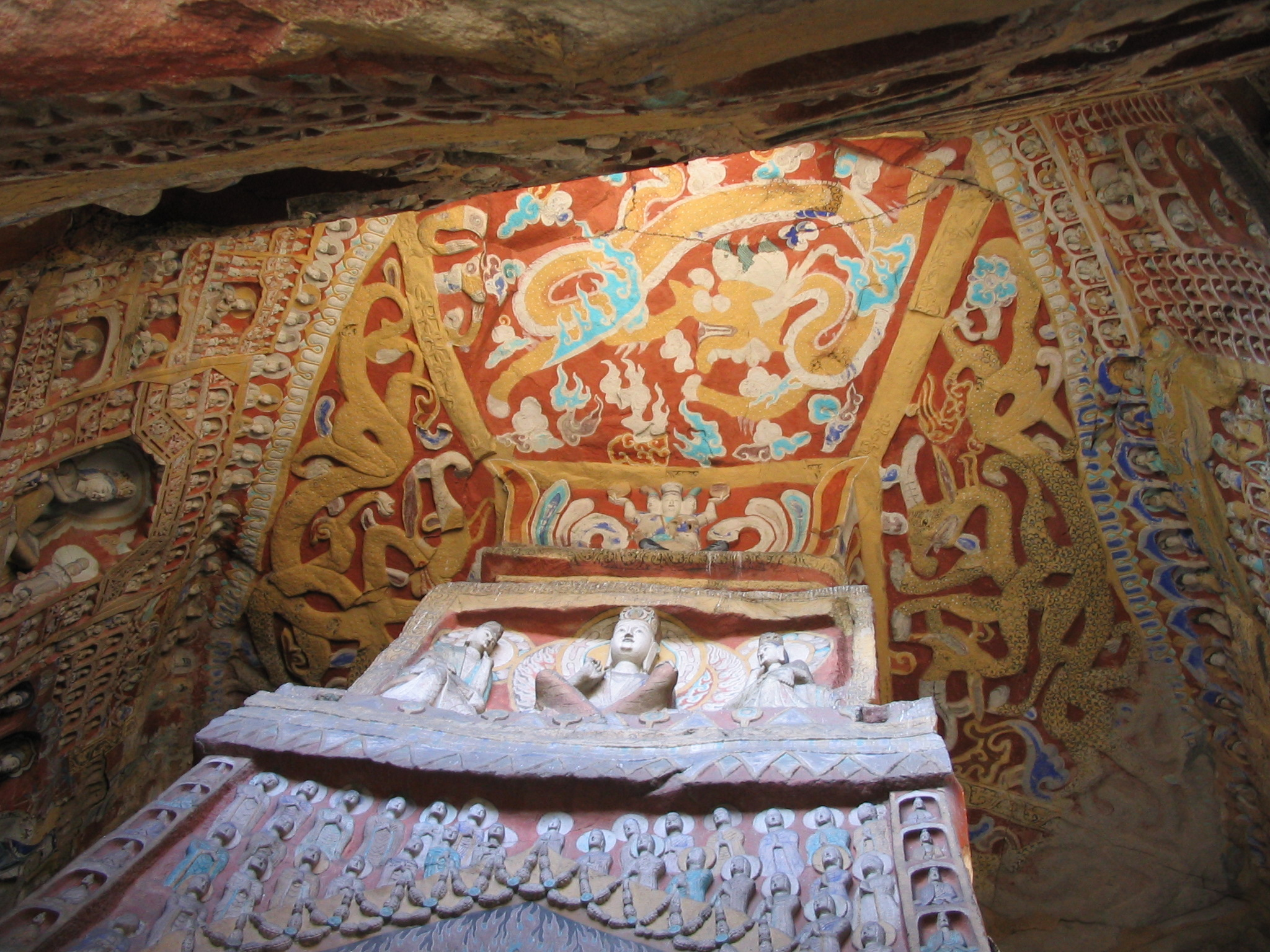 Ceiling paintings. Yungang Grottoes, near Datong, Shanxi province, China.